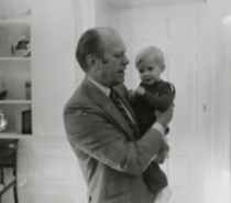 The photo contact sheet, identified as A2445 by the White House Photographic Office (WHPO), is housed at the Gerald R. Ford Presidential Library, a branch of the National Archives and Records Administration (NARA). This file is a 200 dpi photo contact sheet having images from roll of film A2445 of the August 9, 1974 - January 20, 1977 Gerald R. Ford White House Photographic Office Series A0001-A9999 and B0001-B2886 photographs. The date on the photo contact sheet is the date the roll of film was processed, not necessarily the date the photographs were taken. See table below for additional details.